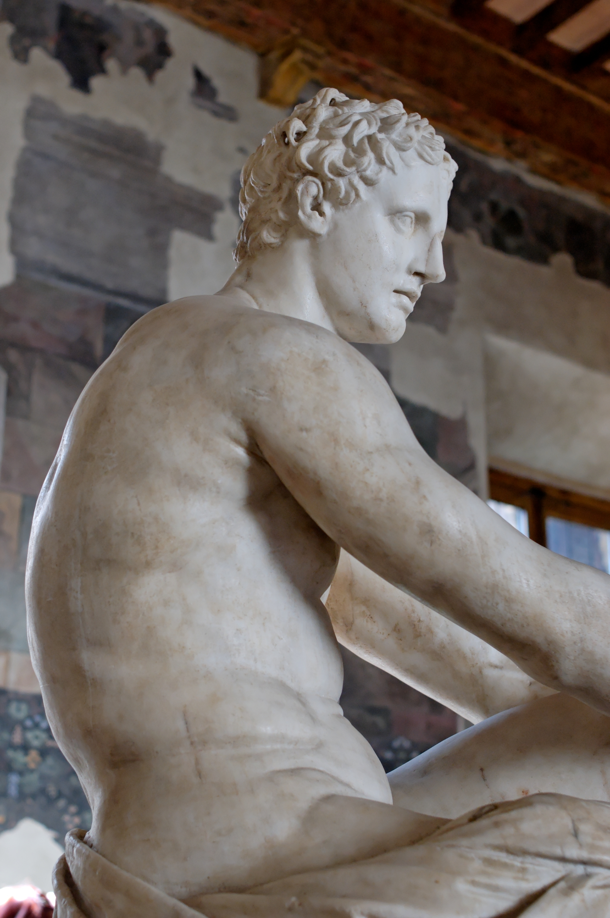 So-called “Ludovisi Ares”. Pentelic marble, Roman copy after a Greek original from ca. 320 BC. Some restorations in Cararra marble by Gianlorenzo Bernini, 1622.